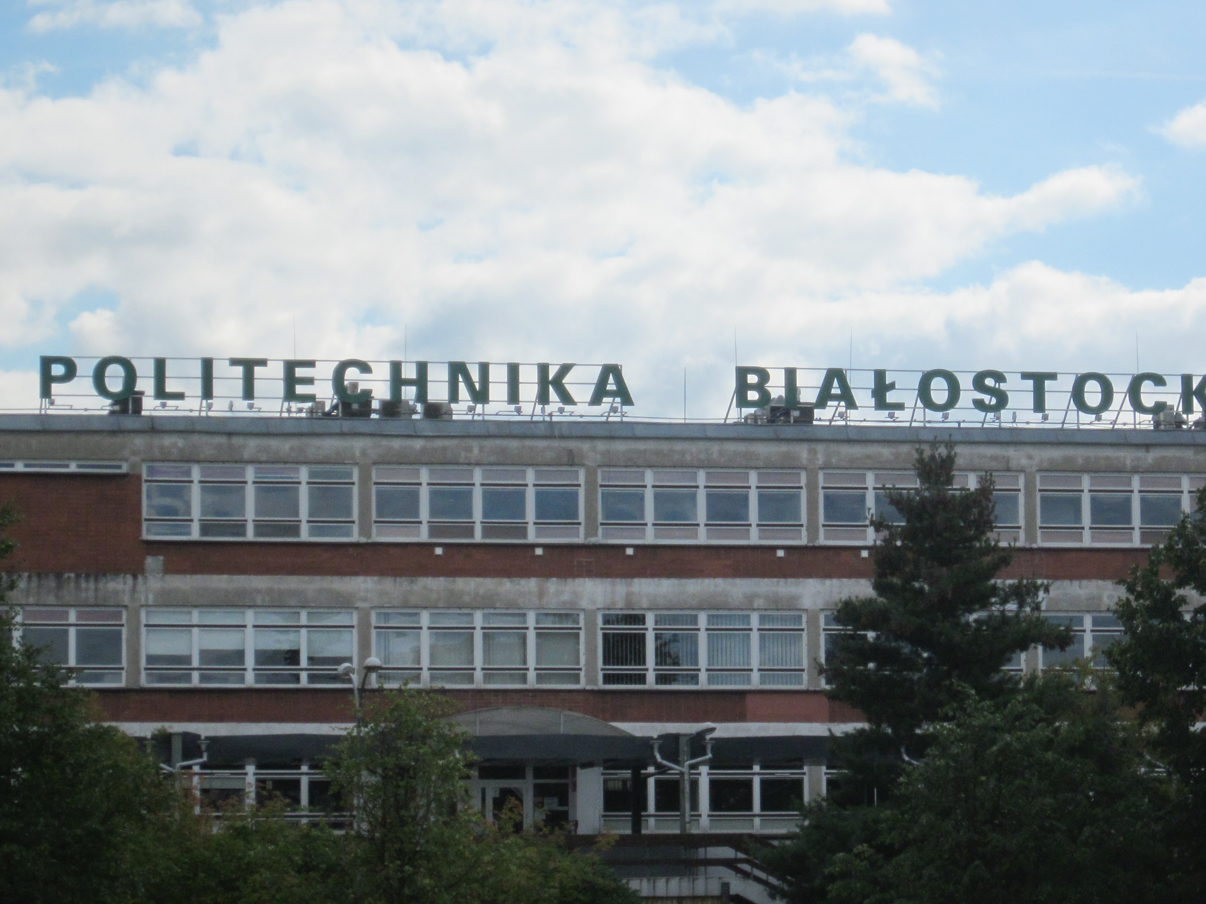 Faculty of Information Technology Białystok Technical University